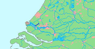 Location of a waterway (river/canal) in the Netherlends